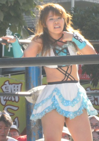 Japanese professional wrestler,Misaki Ohata.Aug 28 2010 BJW Ōimachi Station special ring.